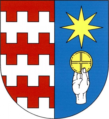 Coat of arms of Dolní Chvatliny (city in Czechia)